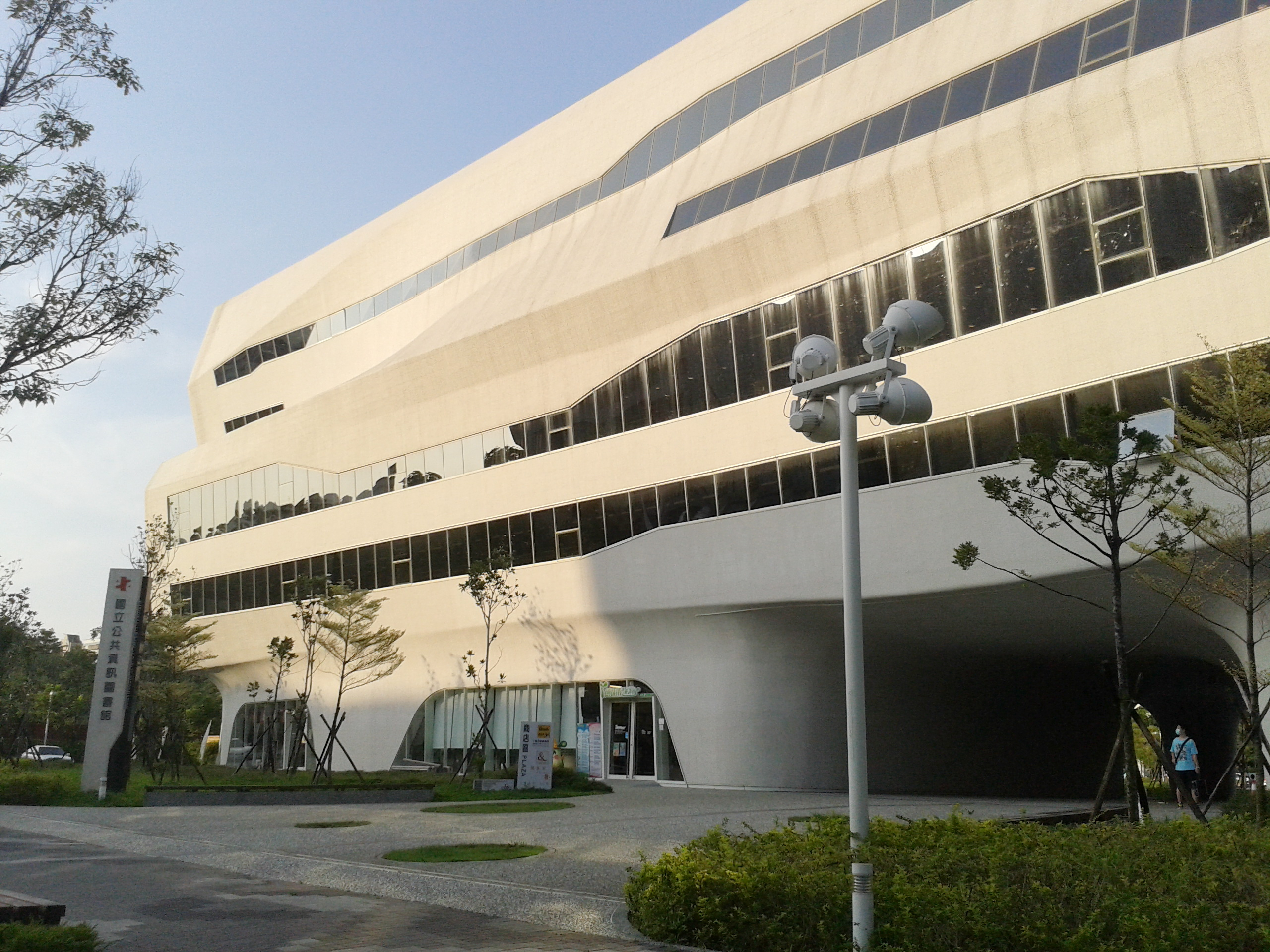 National Library of Public Information, South District, Taichung City, Taiwan